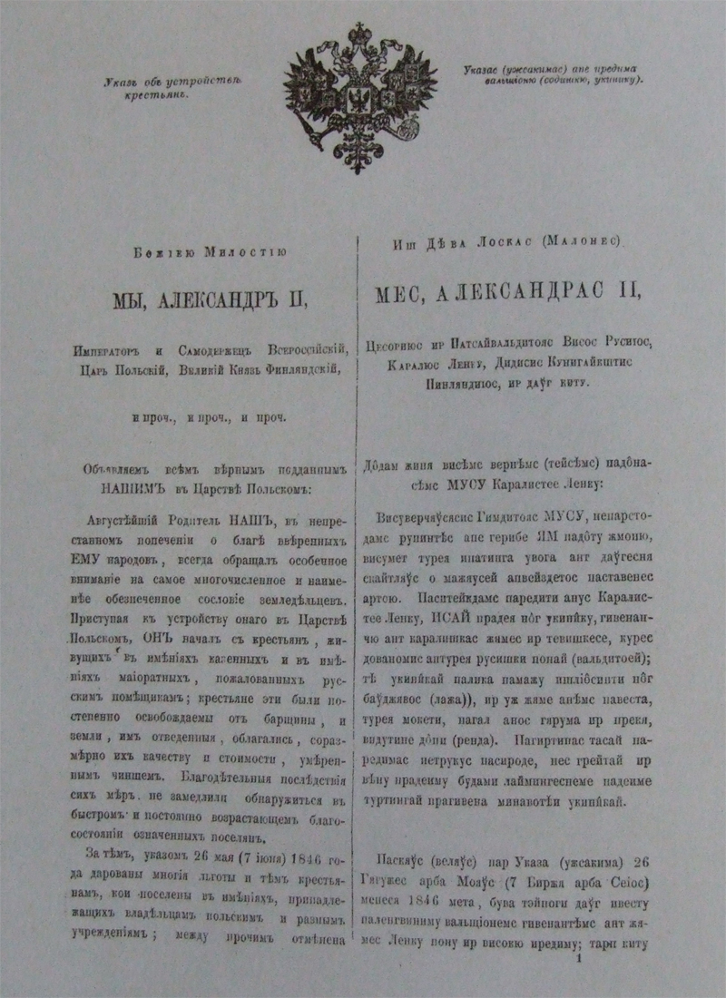 One of the first official edits written in Lithuanian-language that used the Cyrillic alphabet during Lithuanian press ban.